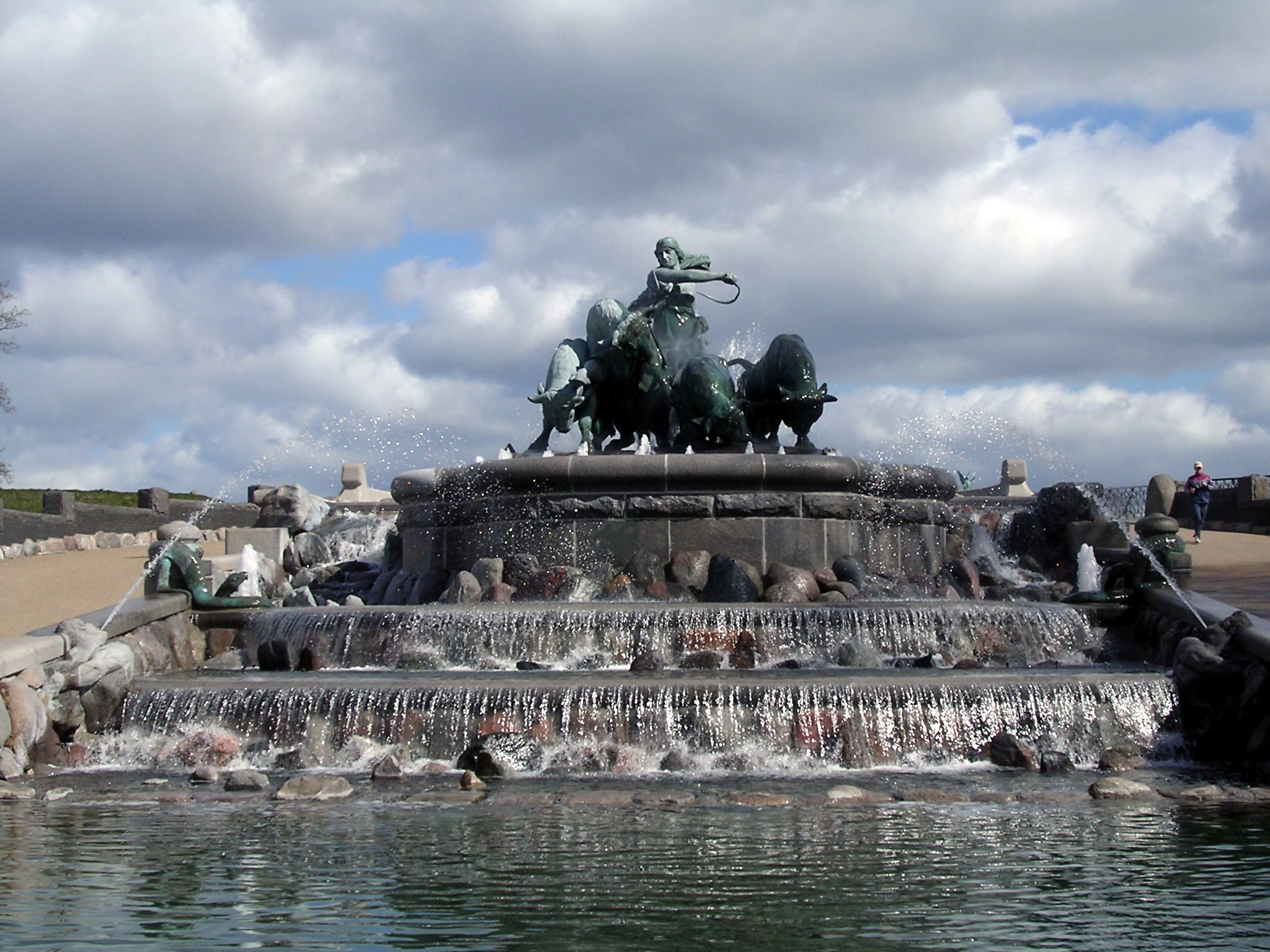 The Gefion Fountain at Nordre Toldbod in Copenhagen, Denmark